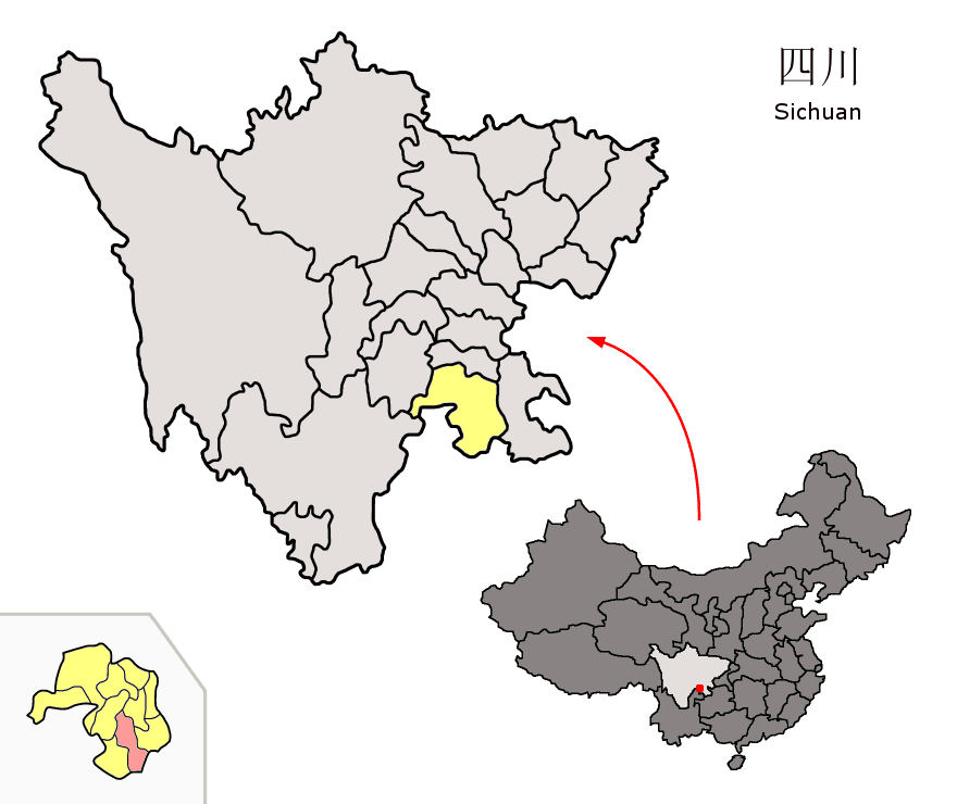 Location of Gong County (pink) and Yibin Prefecture (yellow) within Sichuan province of China Map drawn in october 2007 using various sources, mainly : Sichuan province administrative regions GIS data: 1:1M, County level, 1990 Sichuan Counties map from